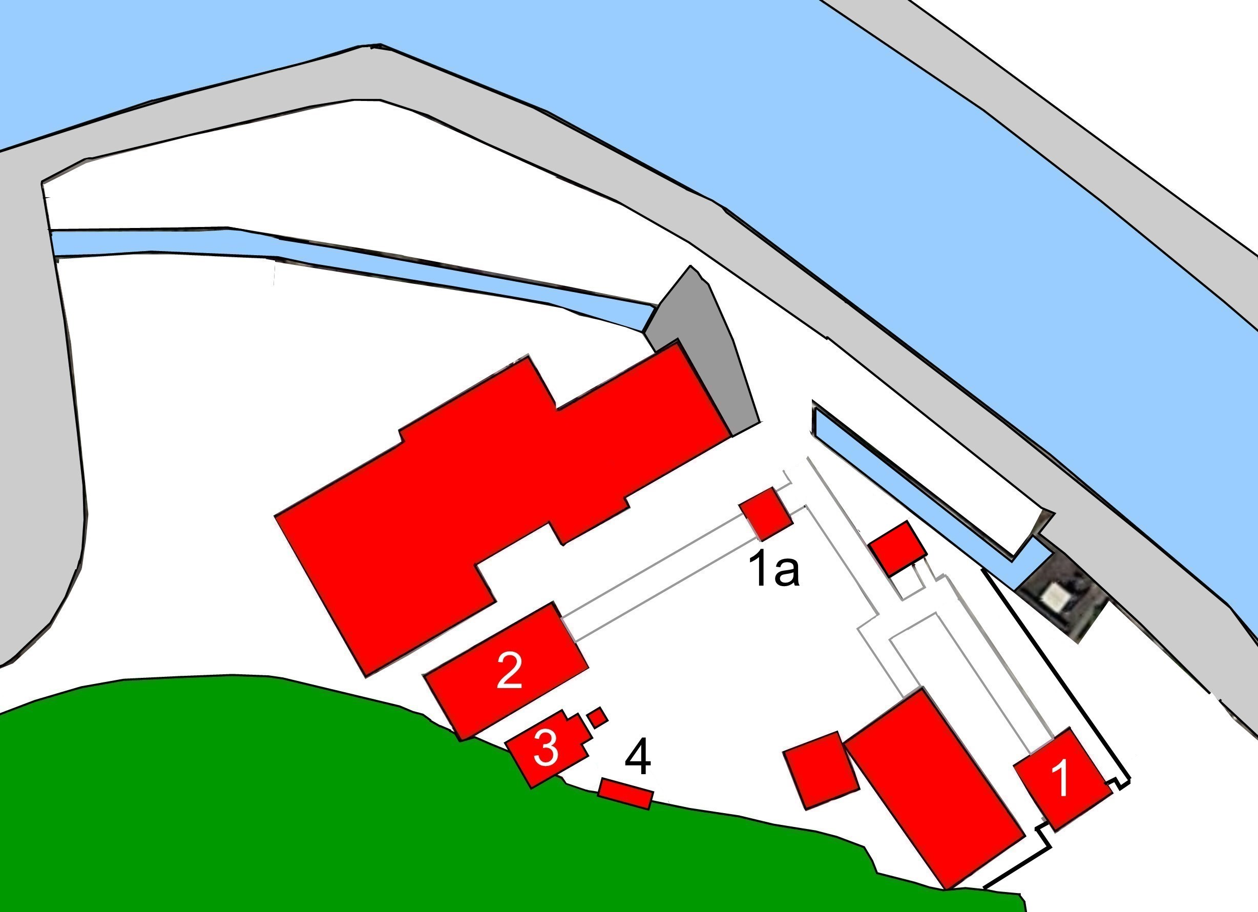 Layout of Kôyama Temple at Zentsûji, Japan